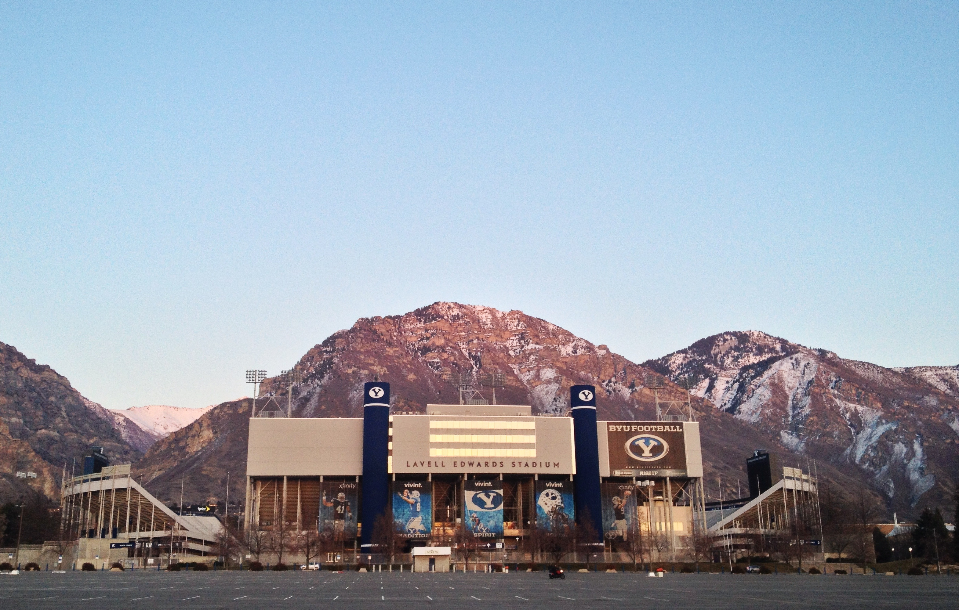 The Wasatch Mountains rise above the LaVell Edwards BYU Football Stadium.